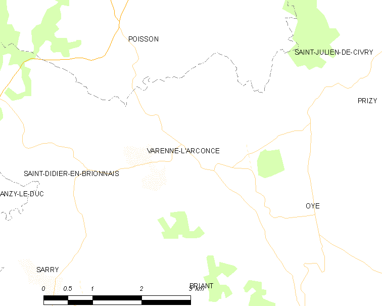 Map of French municipality